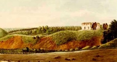 Hofzumberge castle (Kalnamuiža) in Tervete